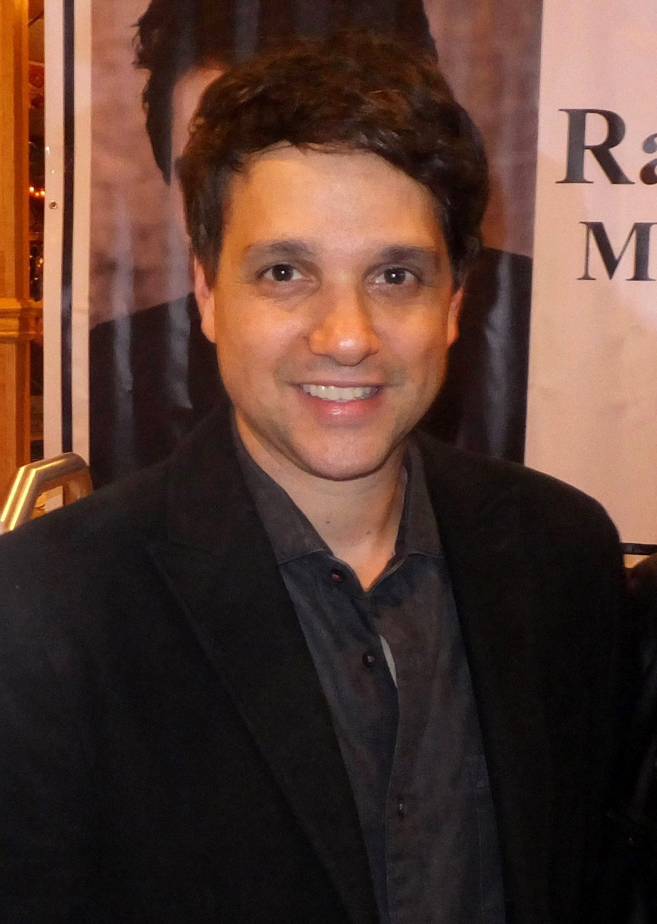 Ralph Macchio at the Chiller Theatre Expo at the Sheraton Parsippany Hotel in Parsippany, New Jersey, October 26, 2013.